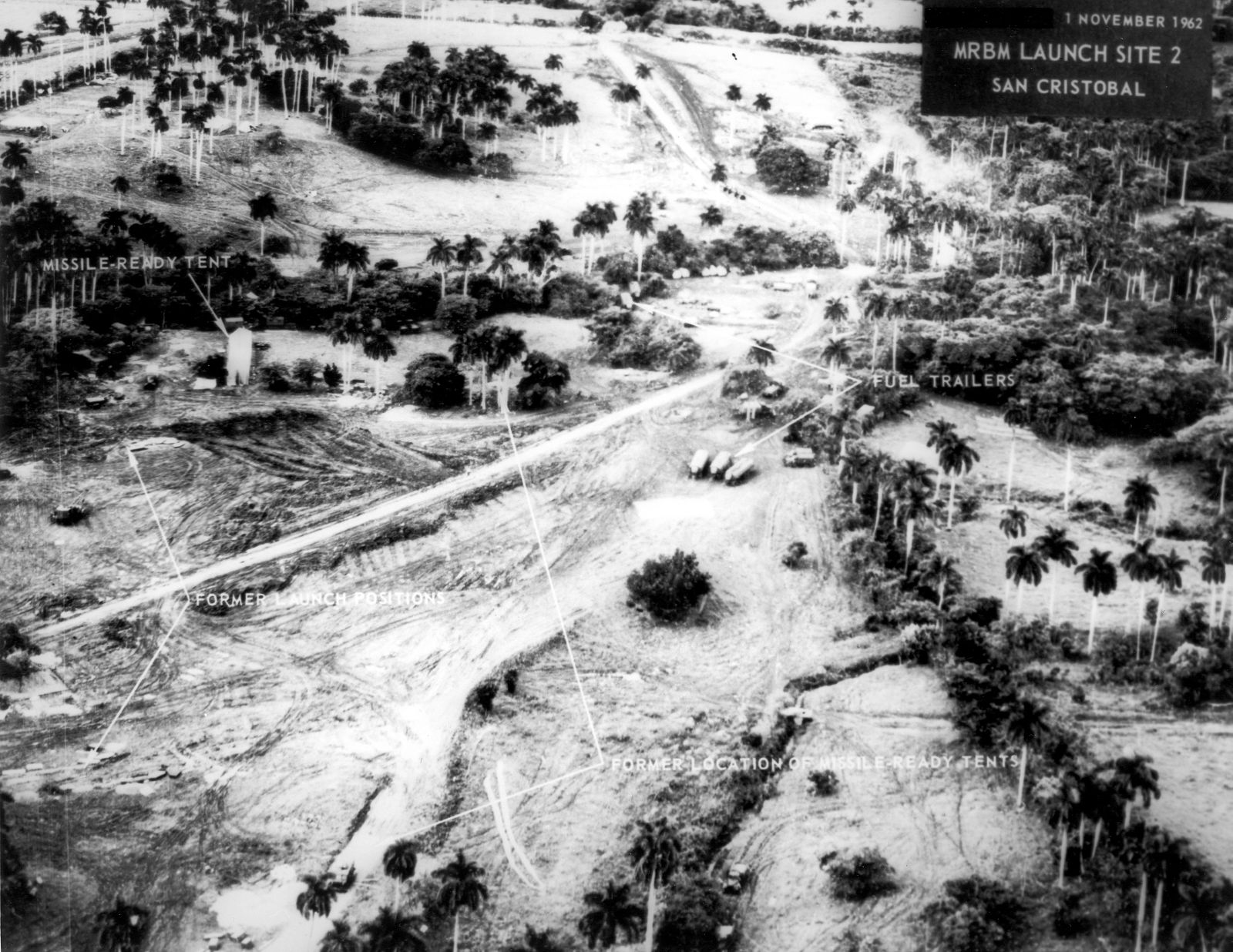 Cuba - an aerial view of the San Cristobal medium range ballistic missile launch site number two. November 1, 1962